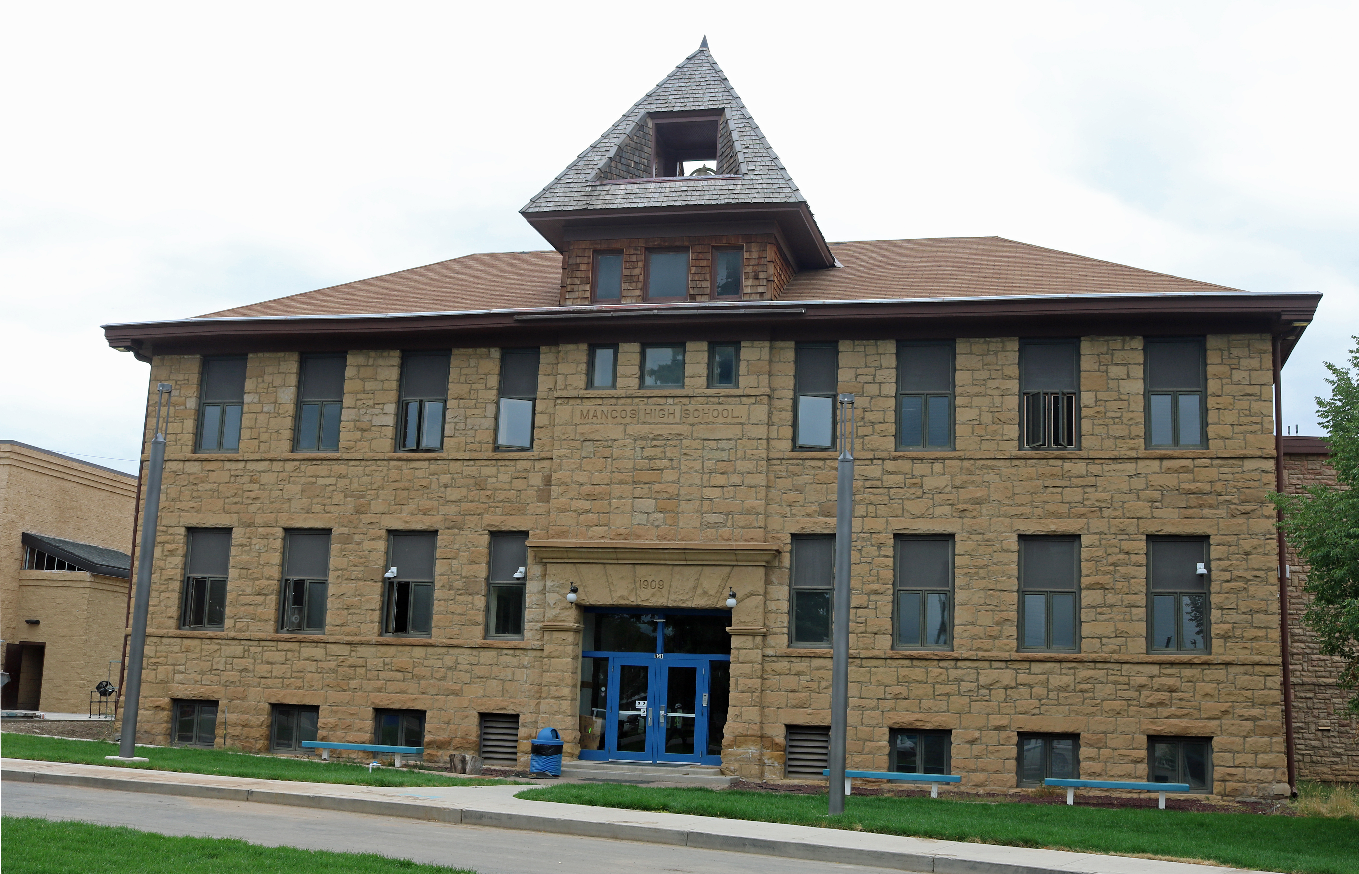 Mancos High School, located at 350 Grand Ave. in Mancos, Colorado. The property is listed on the National Register of Historic Places.